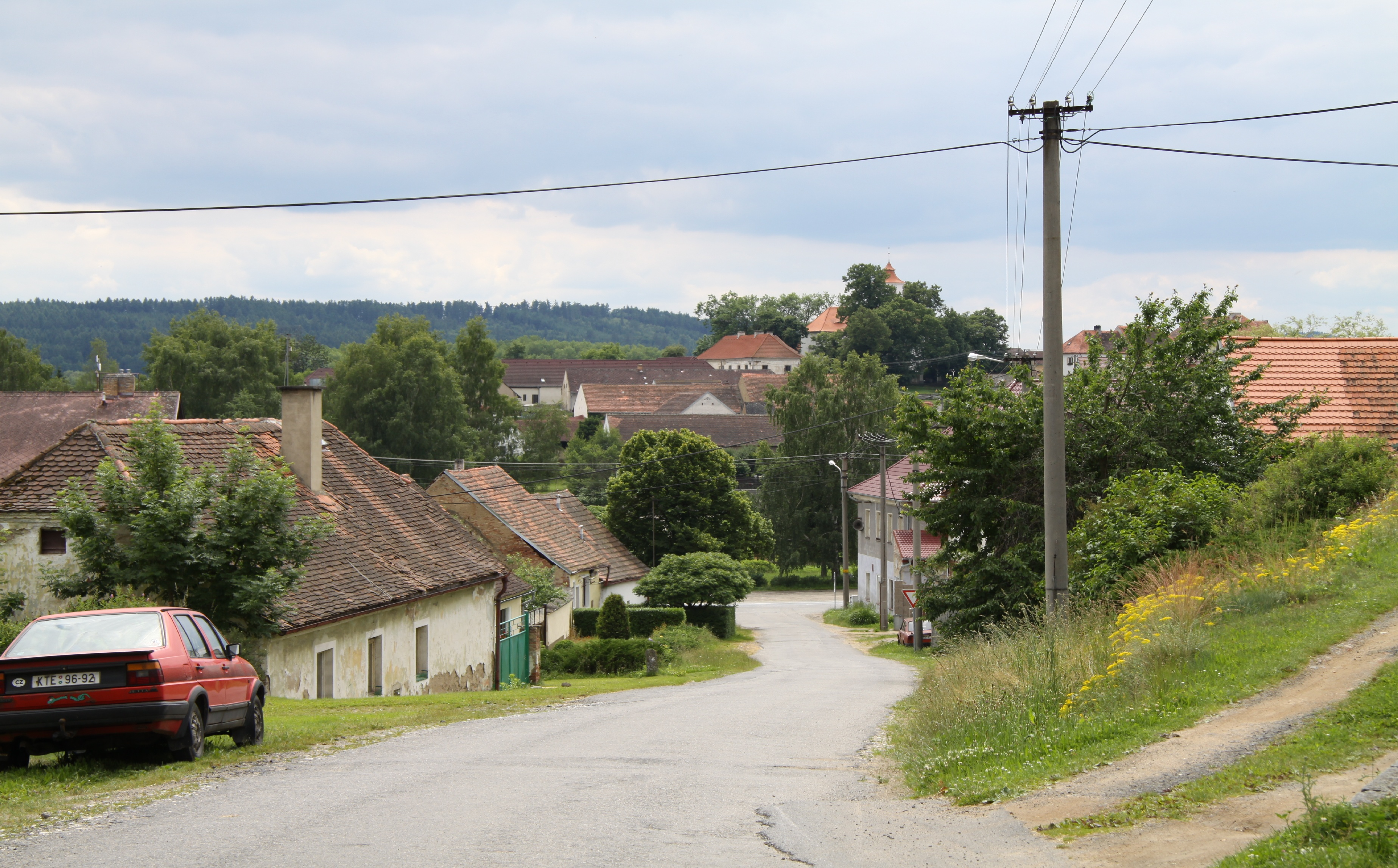 Malý Bor village in Klatovy District, Czech Republic This photograph was taken within the scope of the 'Czech Municipalities Photographs' grant. - Google Maps - Google Earth